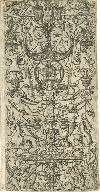 A Grotesque engraving on paper, about 1500 - 1512, Italy. V&A Museum no. E.180-1885 Artist/designer: Nicoletto da Modena, active ca. 1500- ca. 1520 (artist). Salamanca, Antonio, born 1478 - died 05/07/1562 (probably publisher). Dimensions: Height 10.25 in. Width 5.125 in. This engraving by Nicoletto da Modena shows a dense grotesque design. Two of the figures in the print are copied from Nero’s Golden House, the wildly extravagant palace the emperor built for himself after the great fire of Rome. Nicoletto scratched his name there in 1507. However, his dense and imaginative style is closer to different types of grotesque designed by the Italian painter Bernardo Pinturicchio (active in the late 15th century), rather than the Roman original. Nicoletto’s grotesque prints were among the first to be published. The theme of the grotesque – referring to designs with human and animal forms and foliage – was a popular one around this period.